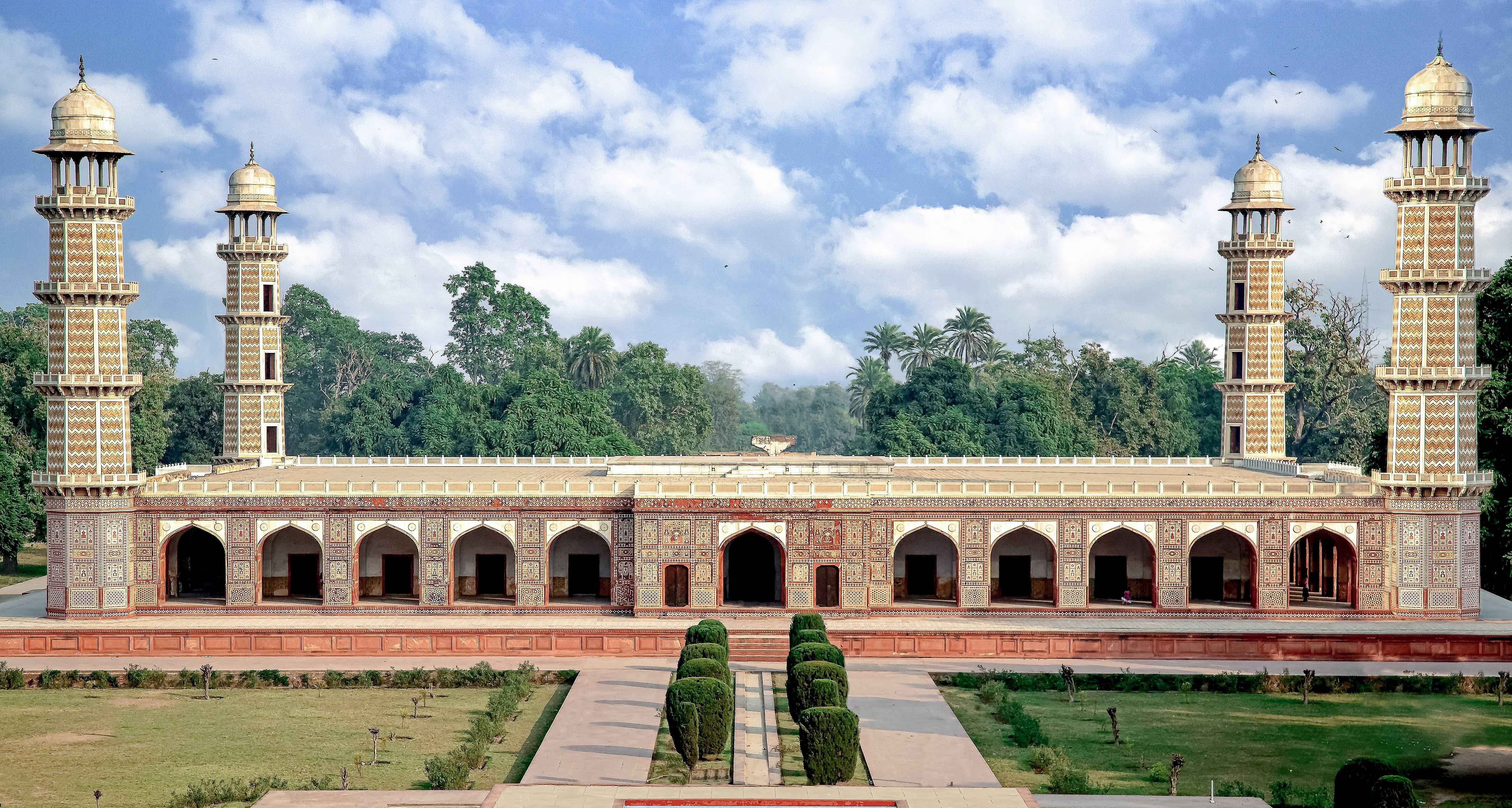 A view of the Tomb of Jahangir